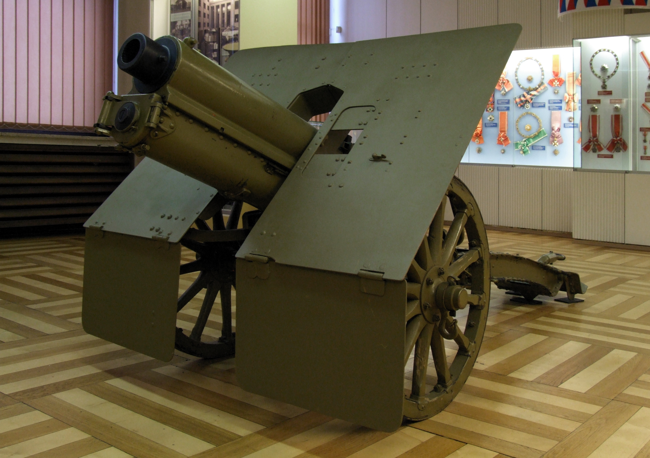 Mountain gun Škoda 75 mm Model 1928,Army Museum Žižkov (Prague)